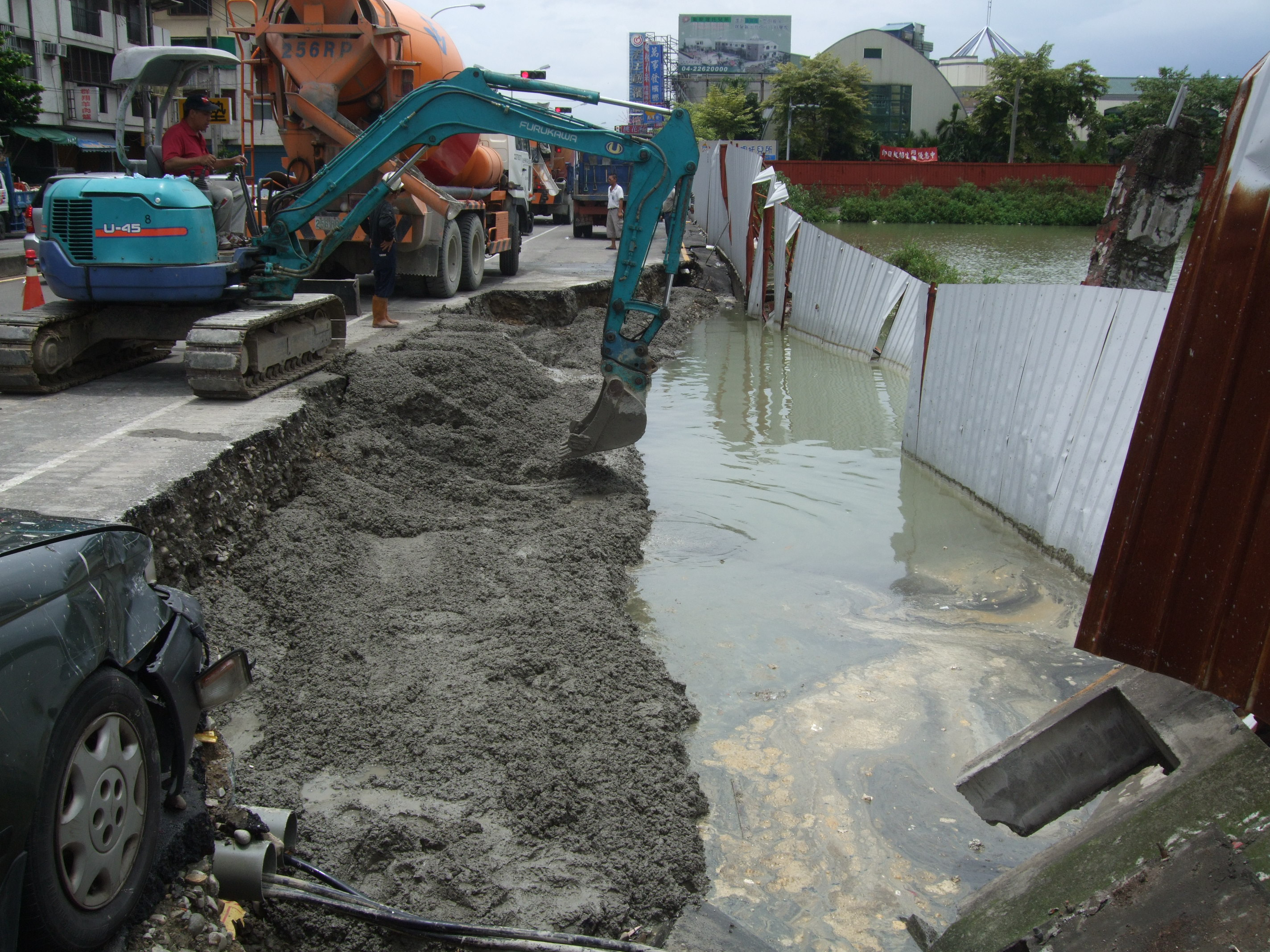 Road crews at work repairing damage on Wuquan South Road in Taichung City caused by Tropical Storm Kalmaegi on July 18, 2008.